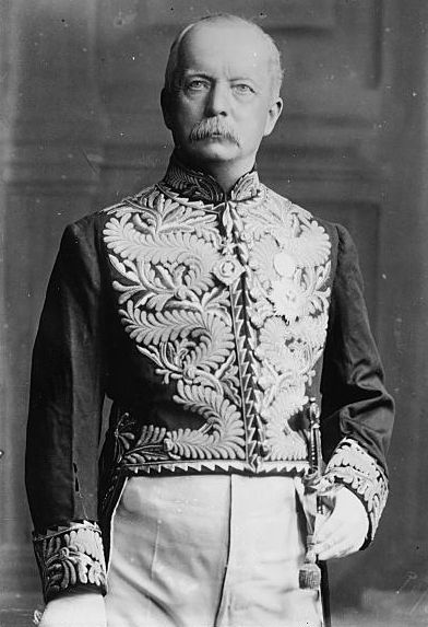 Sir Andrew Henderson Leith Fraser (1848-1919), Lieutenant Governor of Bengal from 1903 to 1908